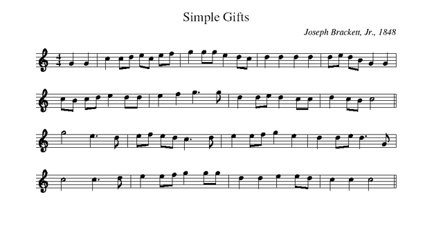 The melody of Simple Gifts shaker's song.